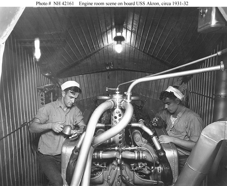 USS Akron (ZRS-4) Scene in one of the airship's engine rooms, circa 1931-1932.This photograph was received from the U.S. Navy Recruiting Bureau, New York, in 1932.